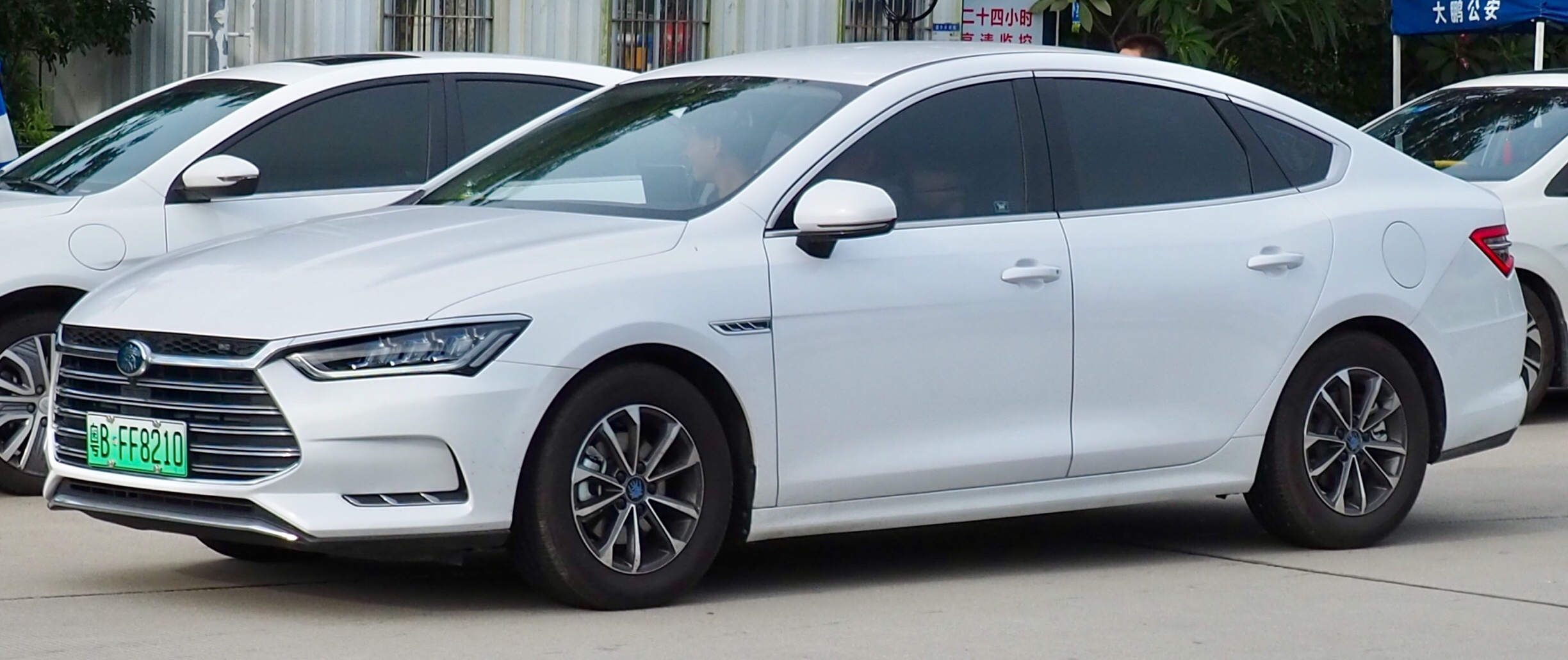 A 2019 BYD Qin taken in Shenzhen, Guangdong province, China. 中文（中国大陆）: 一辆2019年的比亚迪秦，摄于中国广东省深圳市。